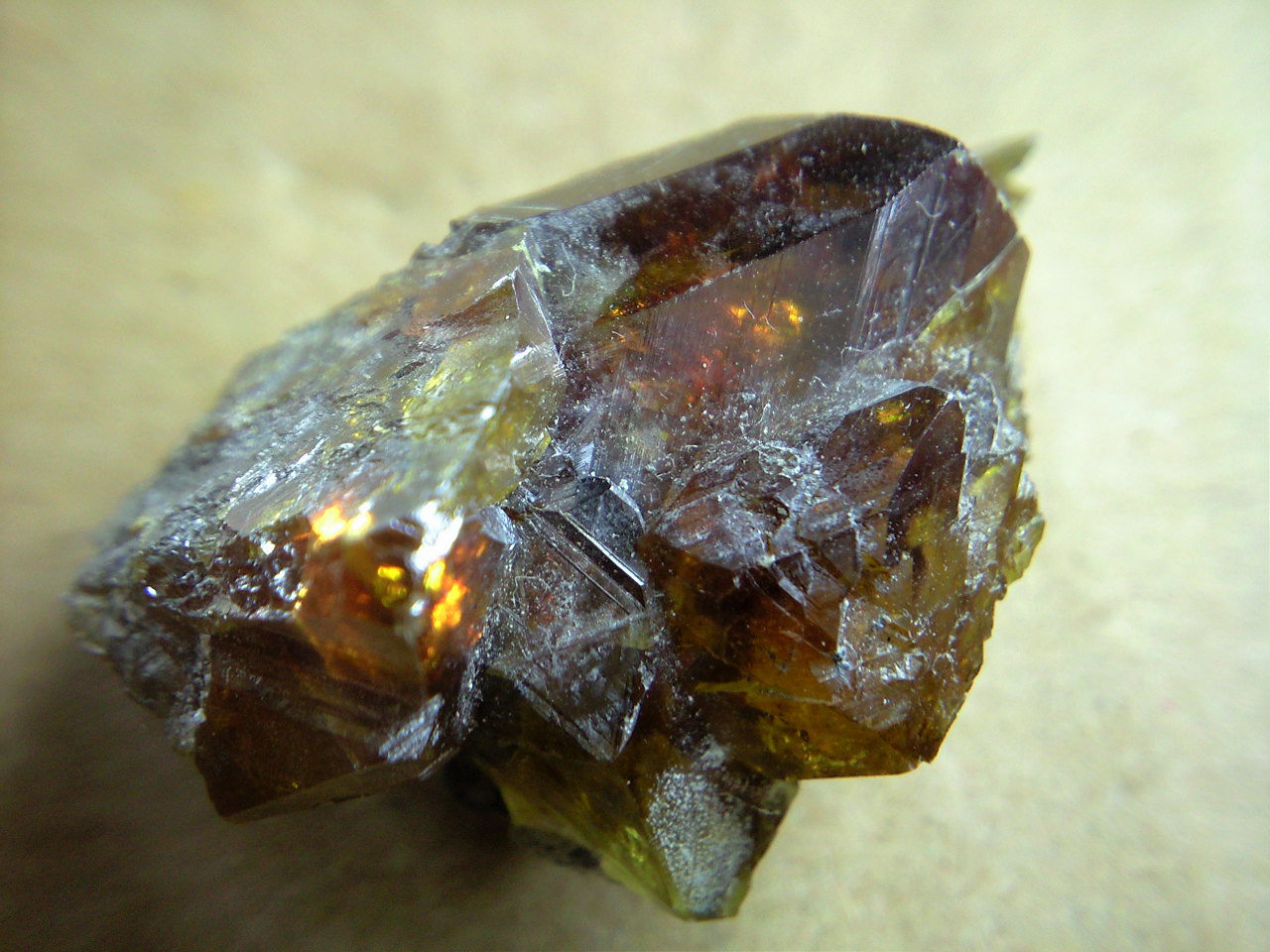 sphalerite